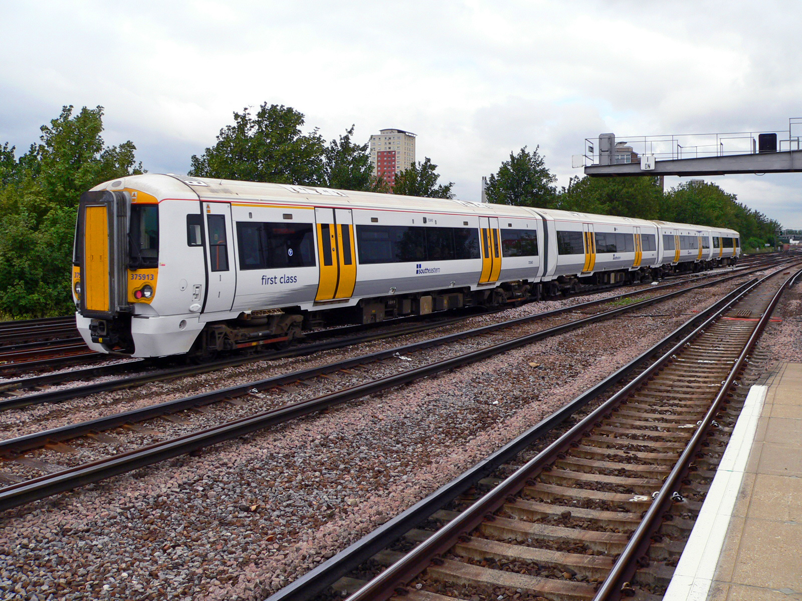 Southeastern Class 375 EMU 375913 departs New Cross station in South London with a northbound service.